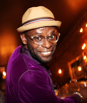 Ngaujah at an NYC party celebrating the pilot for American military drama television series "Last Resort" being picked up by the ABC network in 2012. Ngaujah at an engagement celebrating the Sony Pictures drama television series Last Resort (ABC), being picked up by the network for airing in September of 2012. Photographed by Rameen Gasery